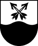 Coat of arms of Uesslingen-Buch, Canton of Thurgau, SwitzerlandEsperanto: Blazono de Uesslingen-Buch, Kantono Turgovio, Svislando